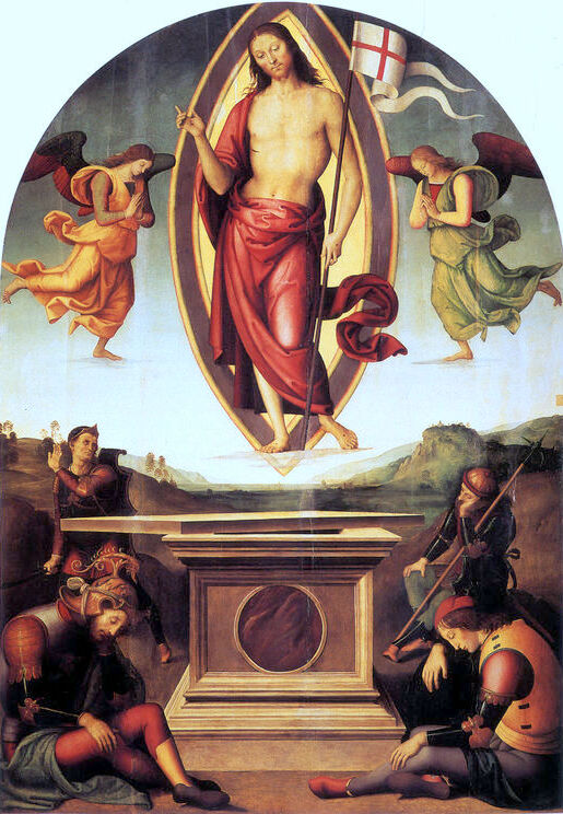 The Resurrection of Jesus Christ Resurrezione di San Francesco al Prato